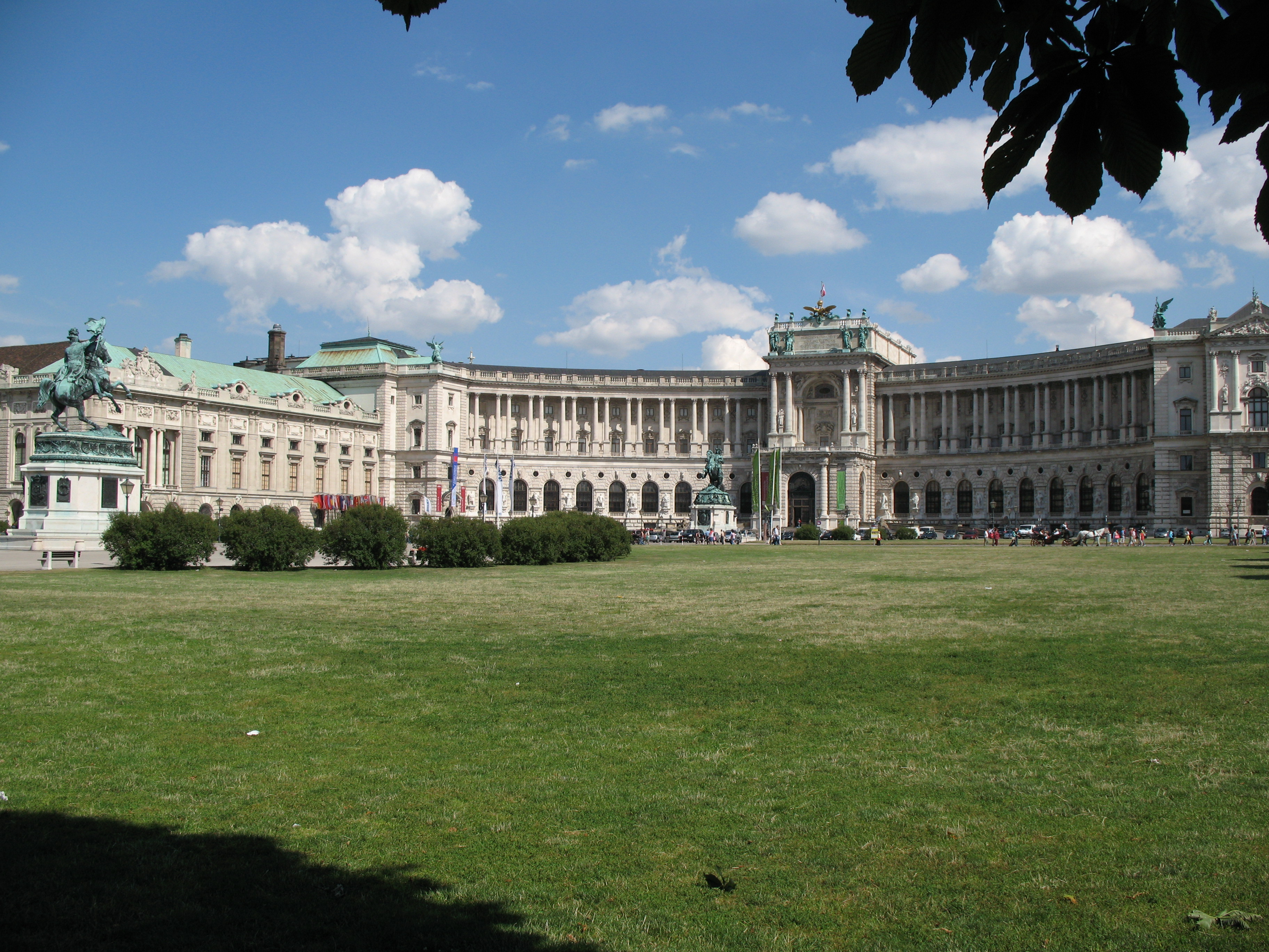 Austria, Vienna, Heldenplatz